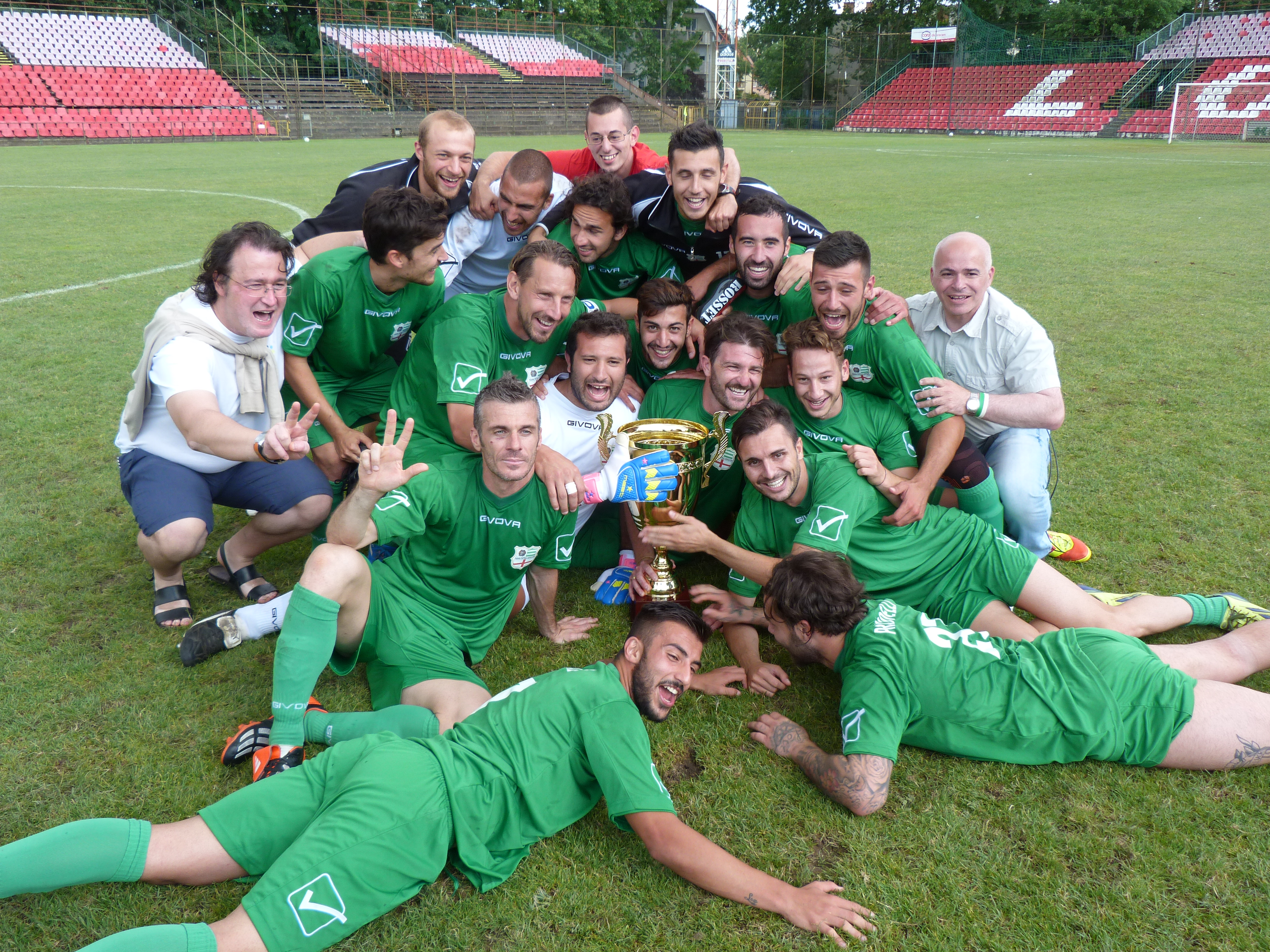 Live in Debrecen, Hungary. 21st of June, 2015. Europe Cup - Confederation of Independent Football Associations, ConIFA. Padania - County of Nice. ©© Derzsi Elekes Andor, Budapest, 2015, Published in the Metapolisz DVD line. You are authorised to use this photo under Creative Commons – even for commercial, for profit purposes. The photo must be attributed to Derzsi Elekes Andor. All of the photos and vids in the Metapolisz DVD line are under Creative Commons and can be used even for commercial – for profit – purposes. Recommended Citation Derzsi Elekes Andor: Metapolisz DVD line